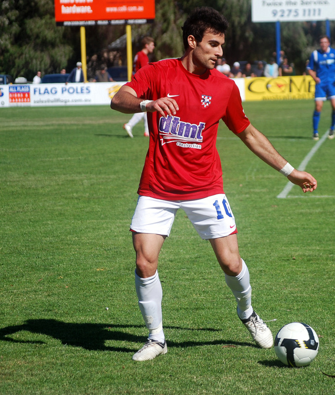 Miceski pulling the strings for the Western Knights in the 2009 WA State League final.